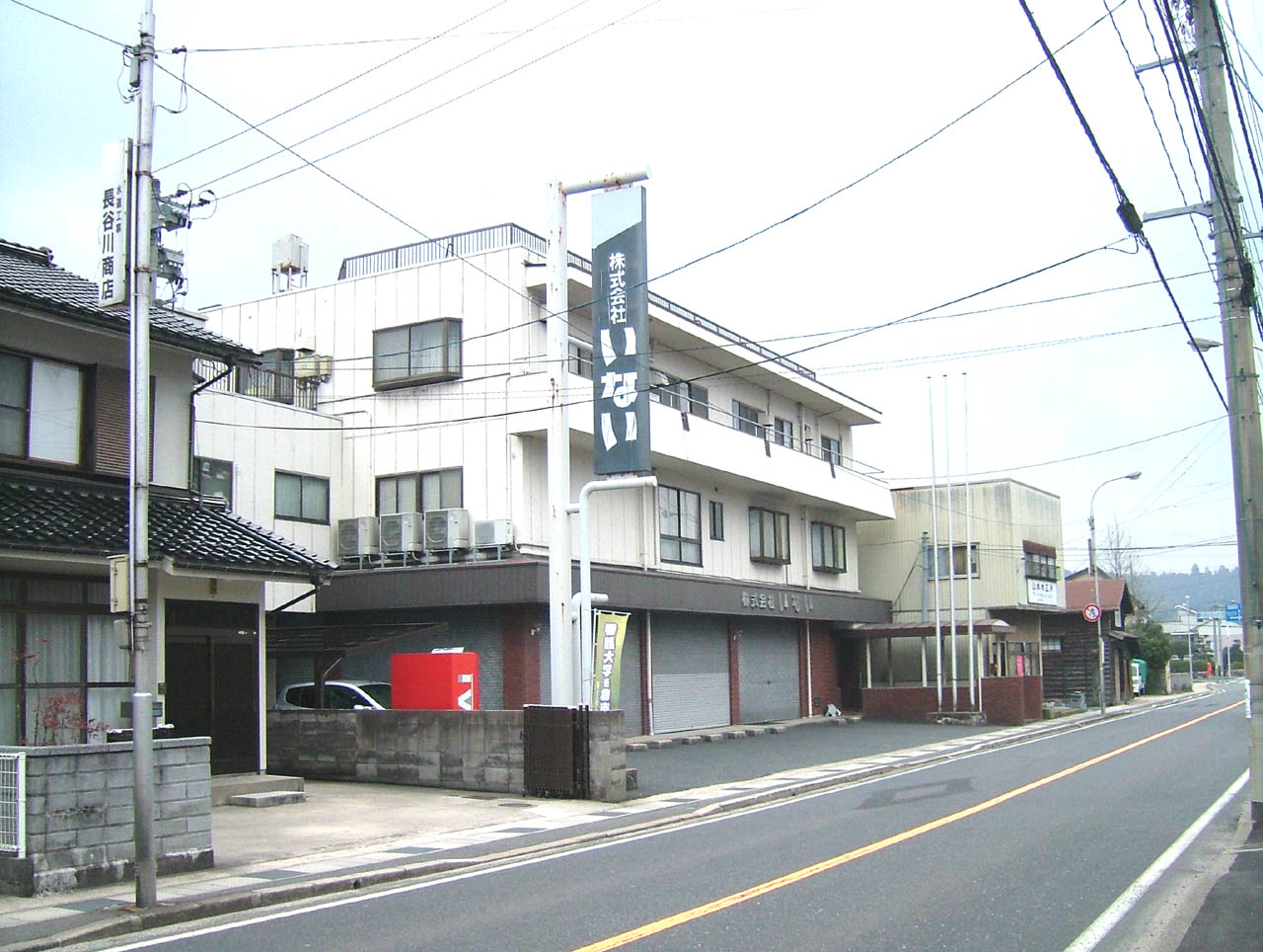 Inai head office Kurayoshi, Tottori prefecture